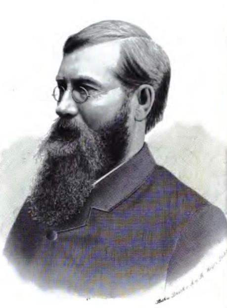 Portray of Rasmus B. Anderson